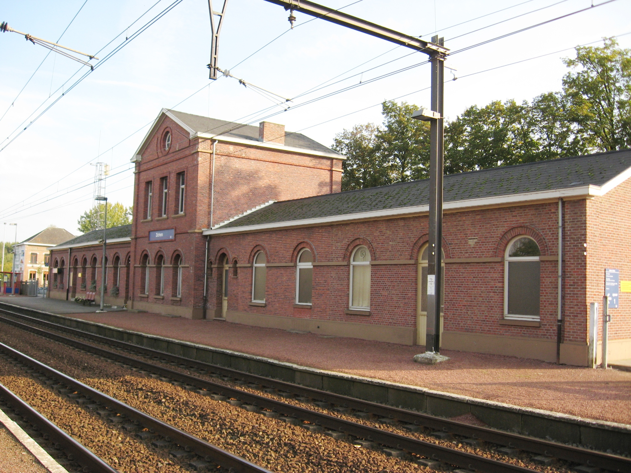 Train station of Zichem, Scherpenheuvel-Zichem, Flemish Brabant, Belgium